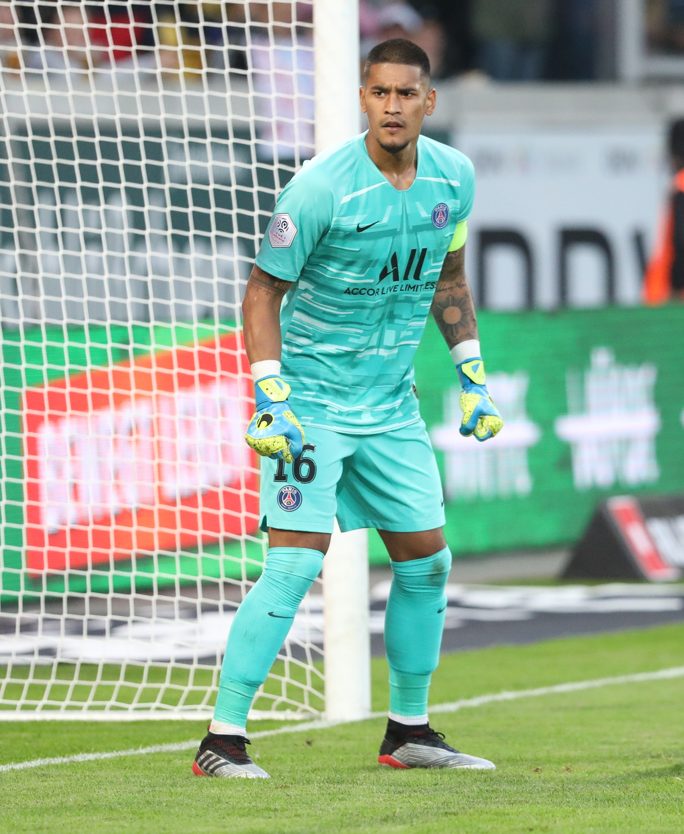 Test game, 17th July 2019: SG Dynamo Dresden vs. Paris Saint-Germain 1:6 (0:3)